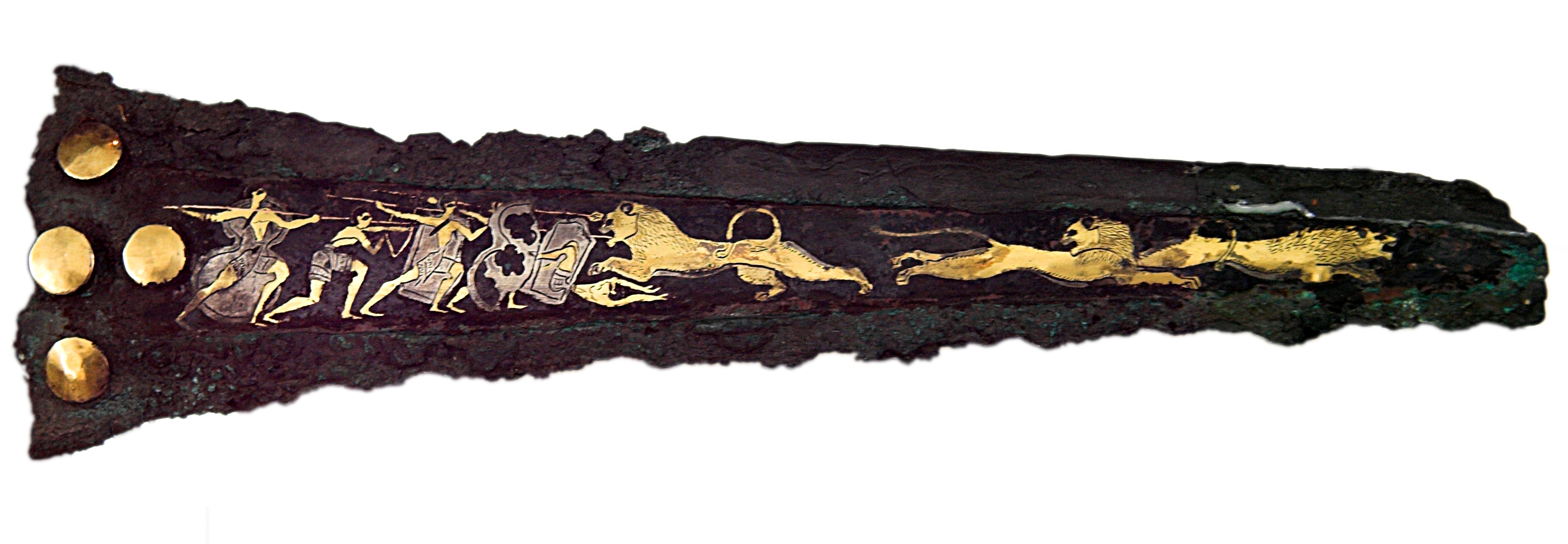 Dagger. Bronze, inlaid with silver and gold. Hunting lions. Mycenaean Late Bronze Age, ca. 16 century BCE. National Archaeological Museum of Athens N 394. The original image was taken by Zde and filed on Wikimedia commons with CCASA 3.0 license. This version of the image has been cropped and digitally edited to change the background to solid white.